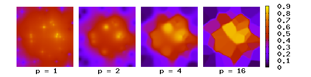 Shepards interpolation method, sampling a smooth function, exp(-x^2-y^2). See also File:Shepard interpolation.png